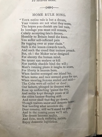 Home Rule Song, Irish National Poems, 1886, J McD of Dromod. Original edition held by Keenhans Hotel, Tarmonbarry, Co. Roscommon.